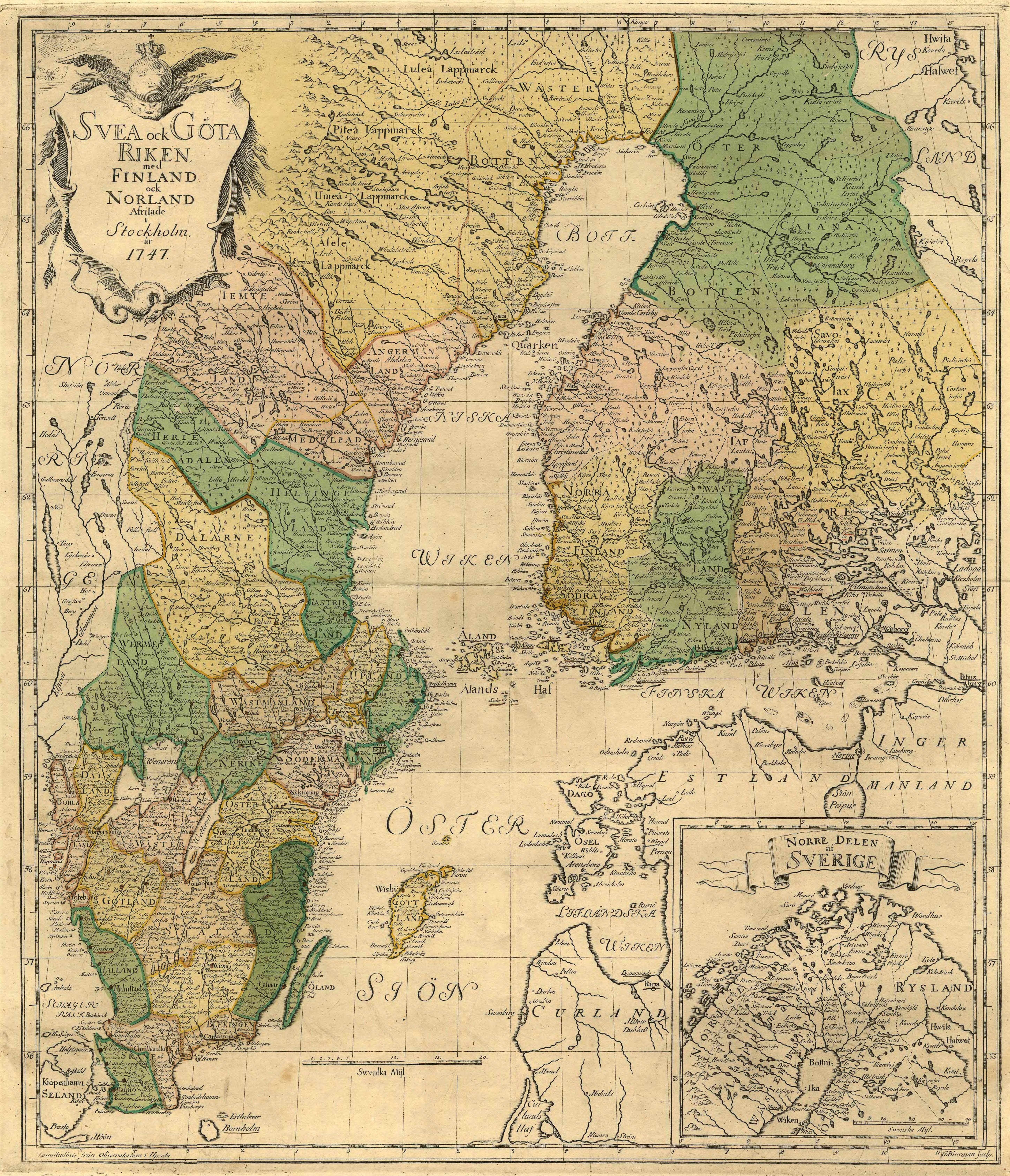 A map of Sweden and Finland, made in Stockholm, Sweden, 1747.